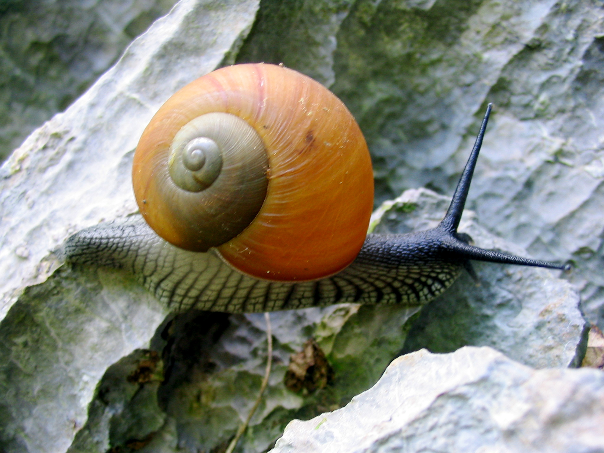 an unidentified gastropod from Cuba. Locality: Viñales, Cuba.